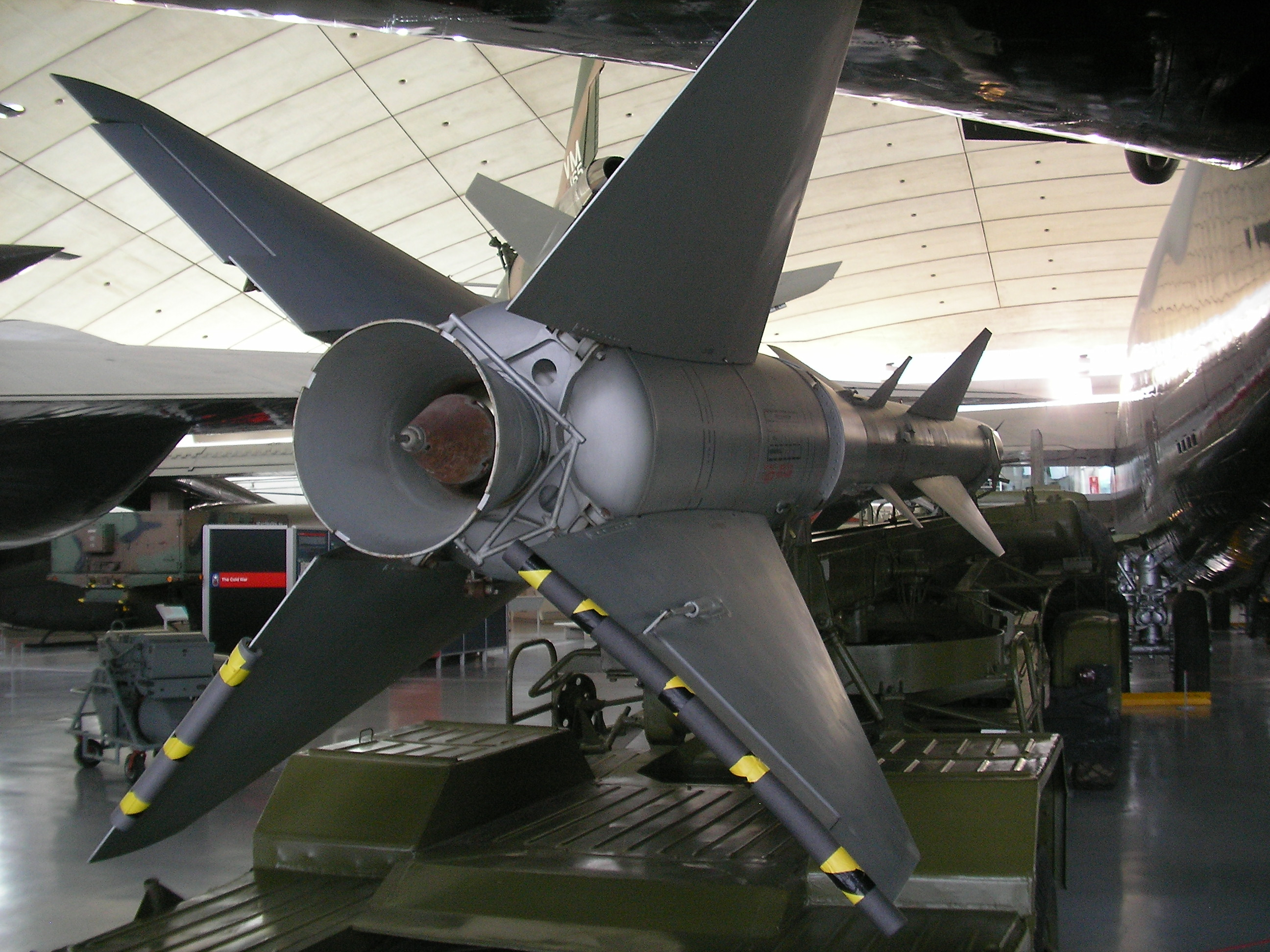 S-75 missle photographed from rear to show how it works. Stored indoors in Duxford.